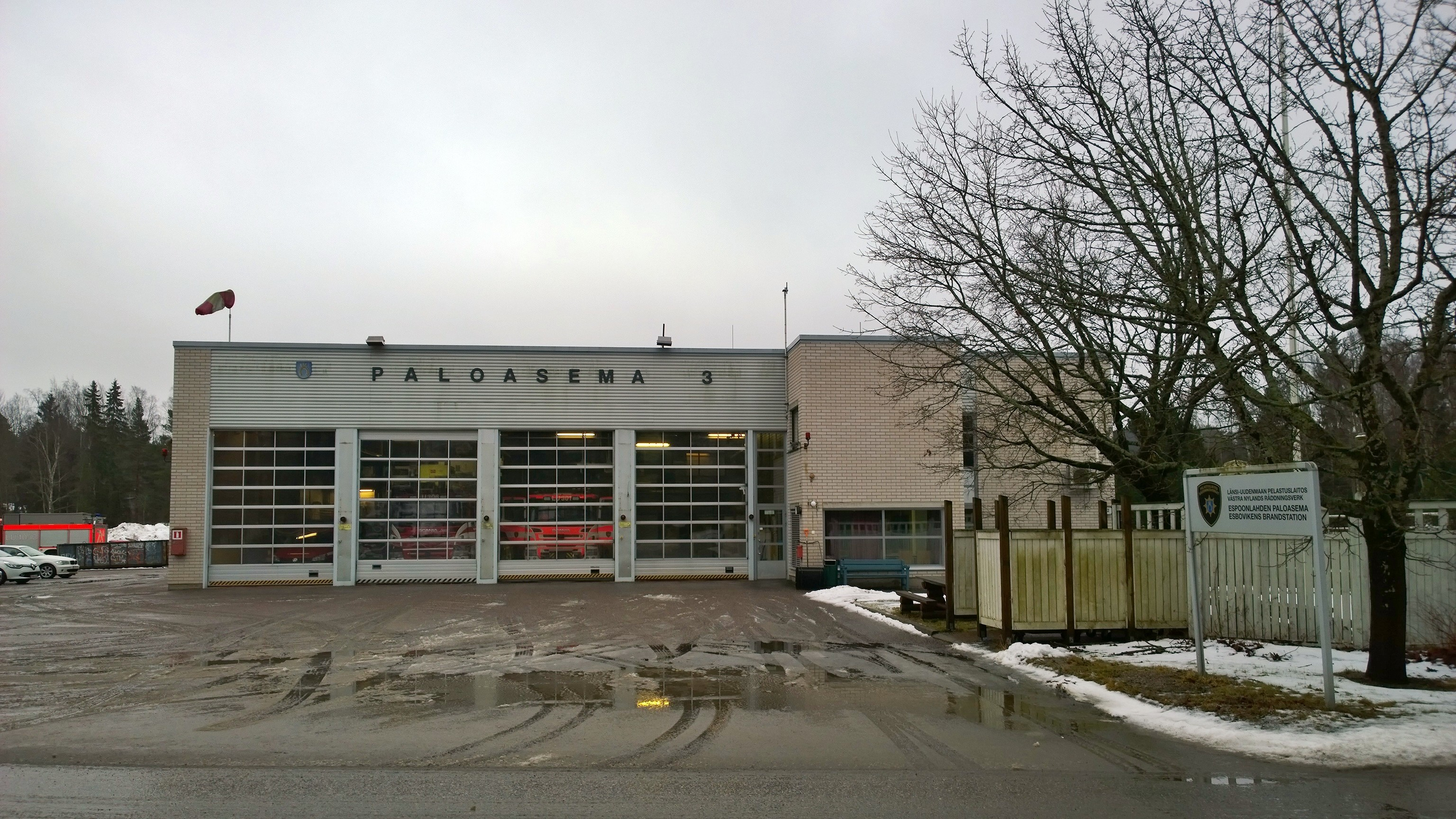 Espoonlahti Fire Station was built in 1978.